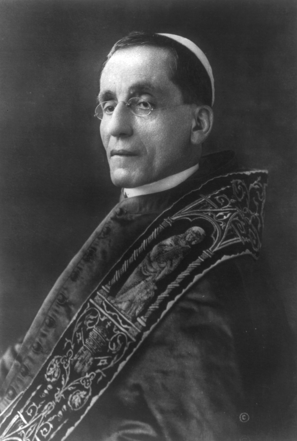 Portrait of Pope Benedict XV.